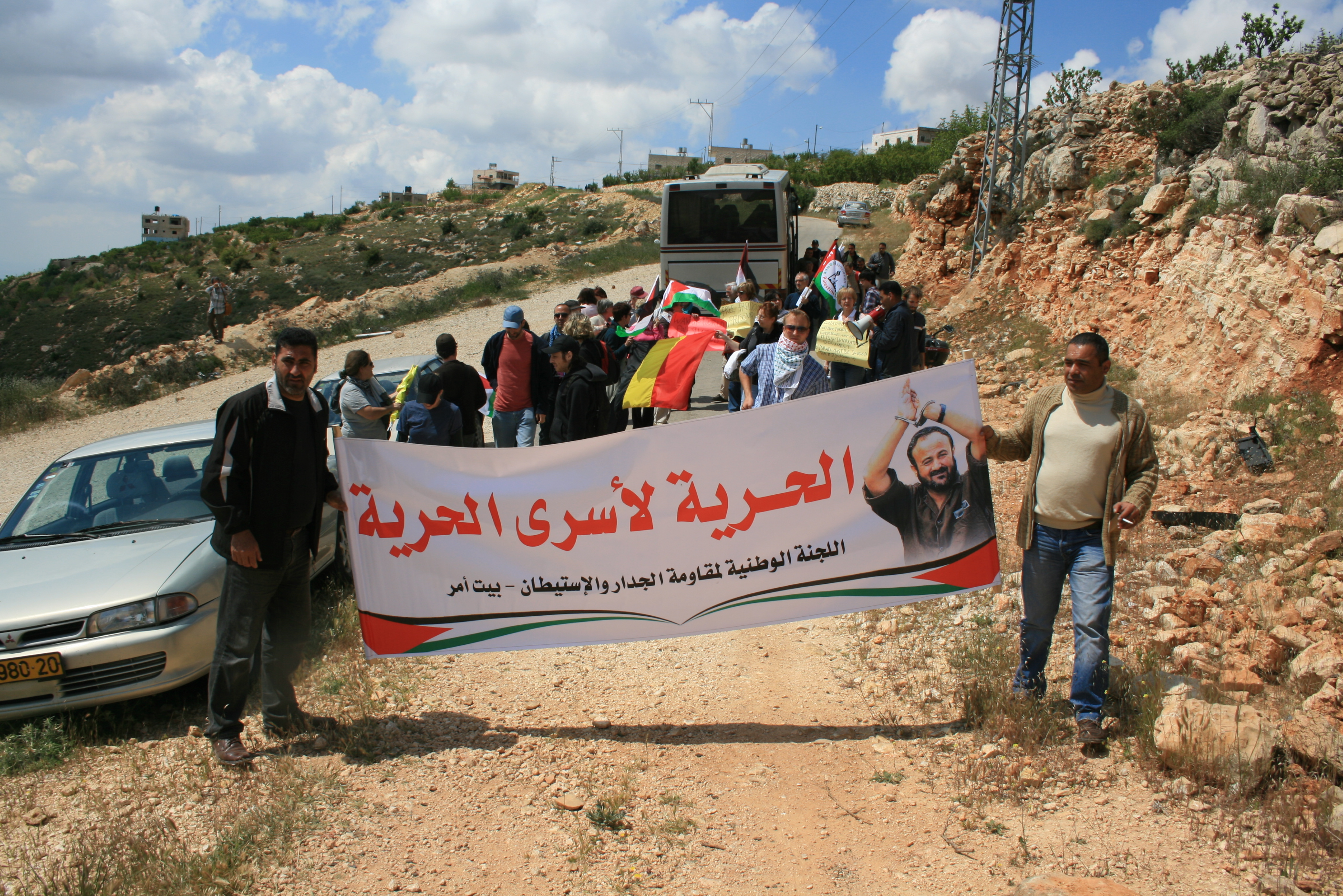 Demonstration against land confiscation, Bait Ummar, December 2011